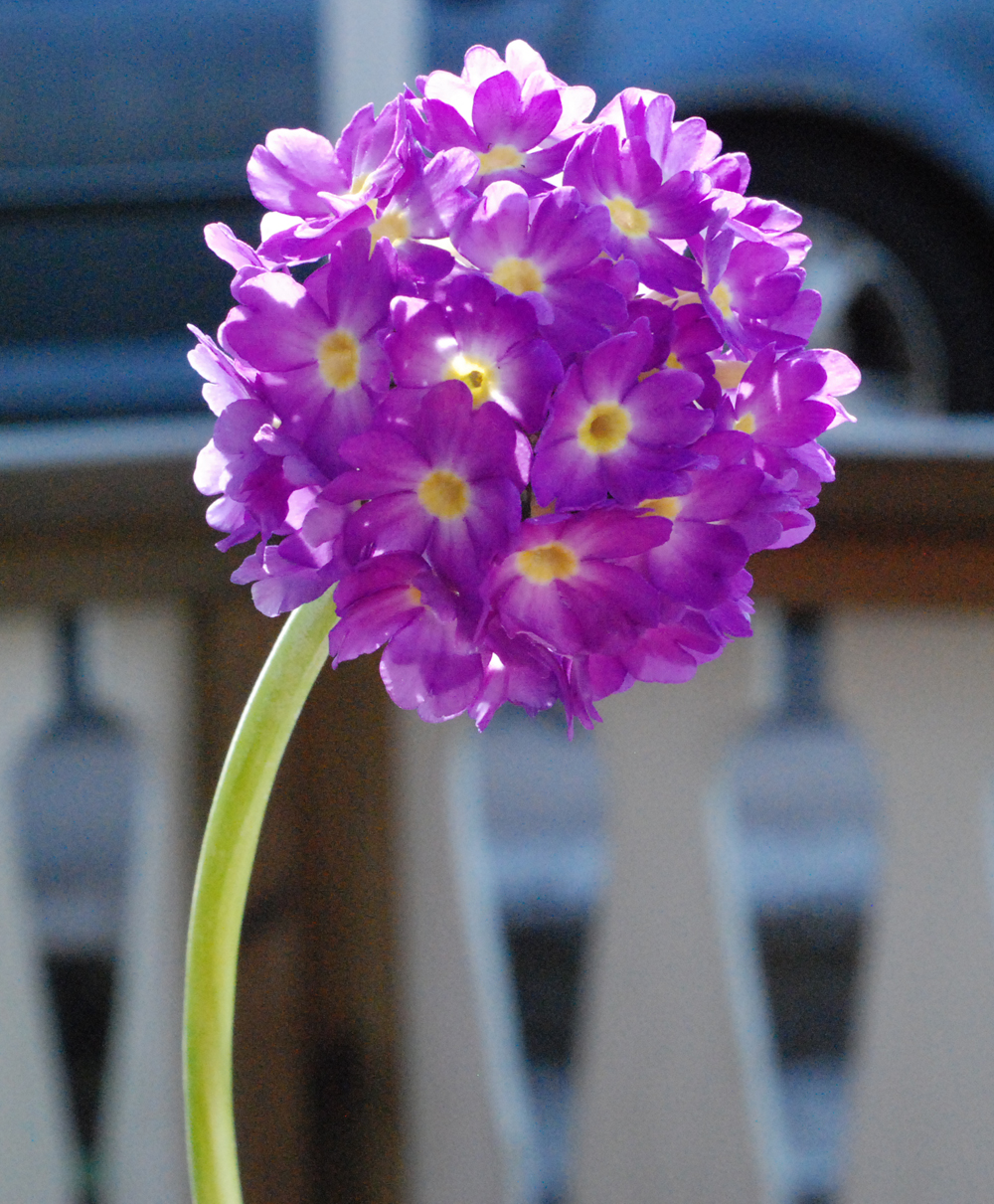 A purple Primula denticulata